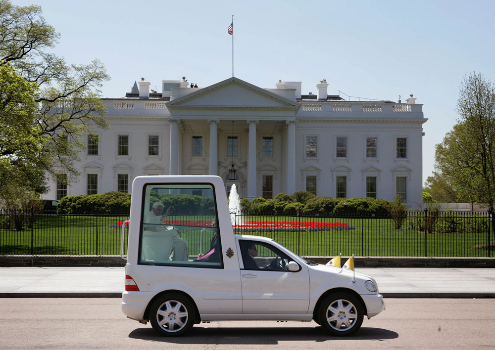 "Pope Benedict XVI waves from the Pope-mobile as he passes the White House on Pennsylvania Avenue Wednesday, April 16, 2008, following a welcoming ceremony in his honor on the South Lawn."